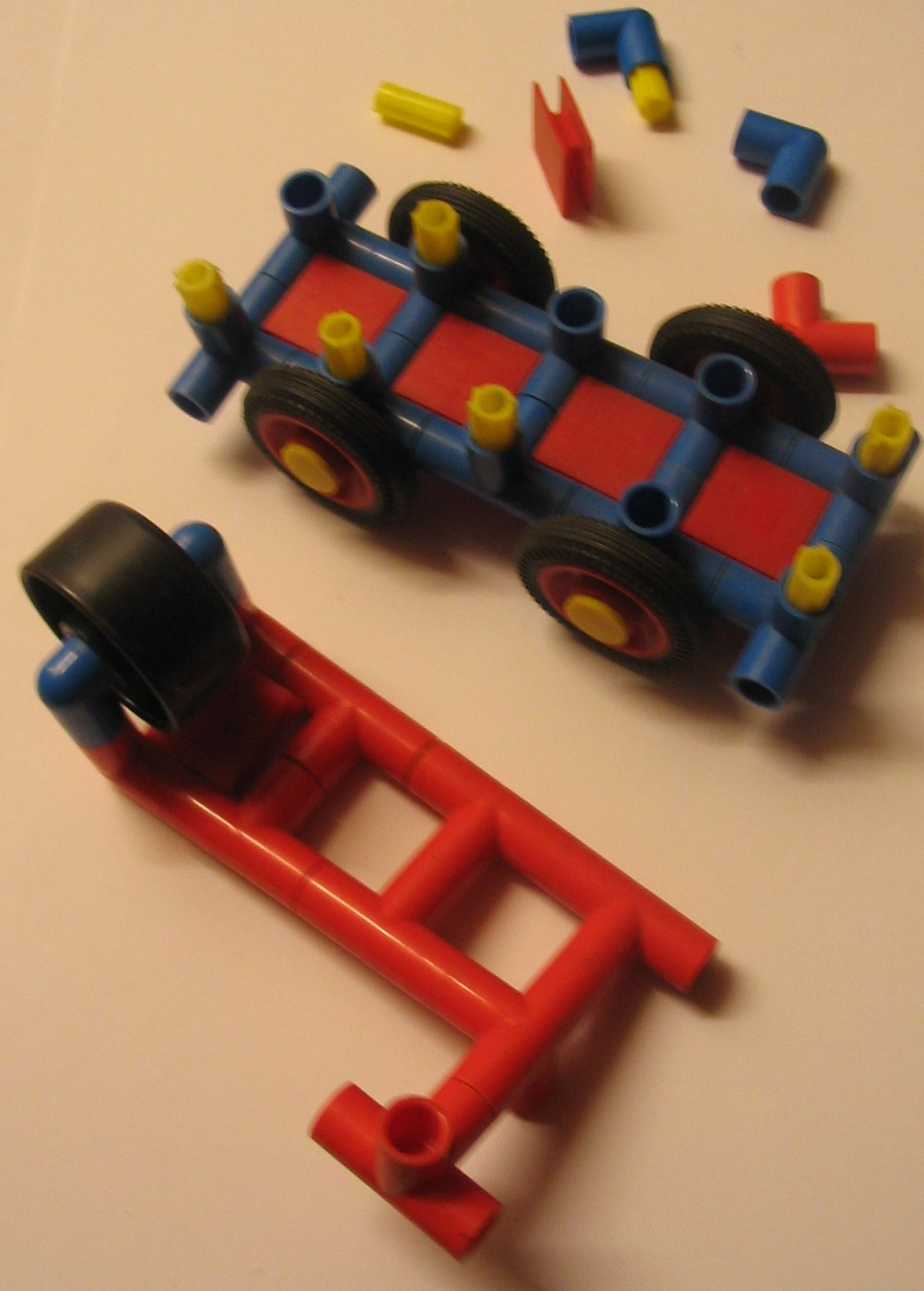 Plasticant (by Milton Bradley]